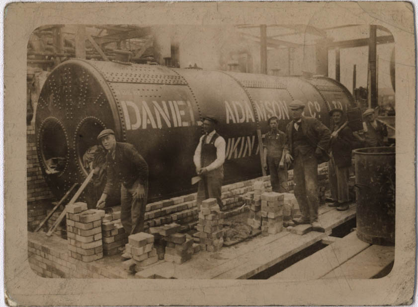 Workers installing a steam engine boiler made by Daniel Adamson & Co Dukinfield